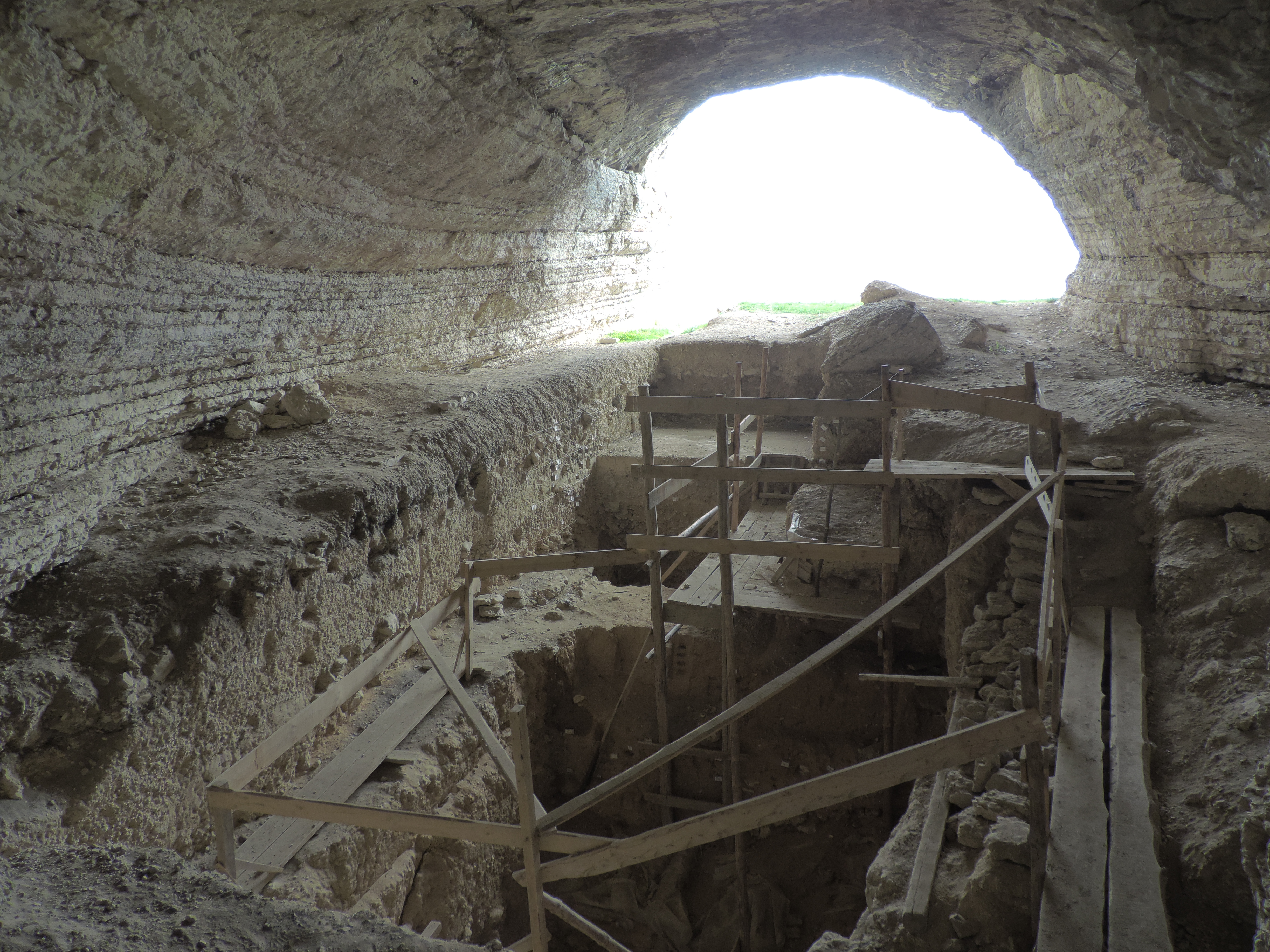 Archaeological excavations at the entrance of the Kozarnika Cave, Balkan mountain, Dimovo Municipality, Bulgaria